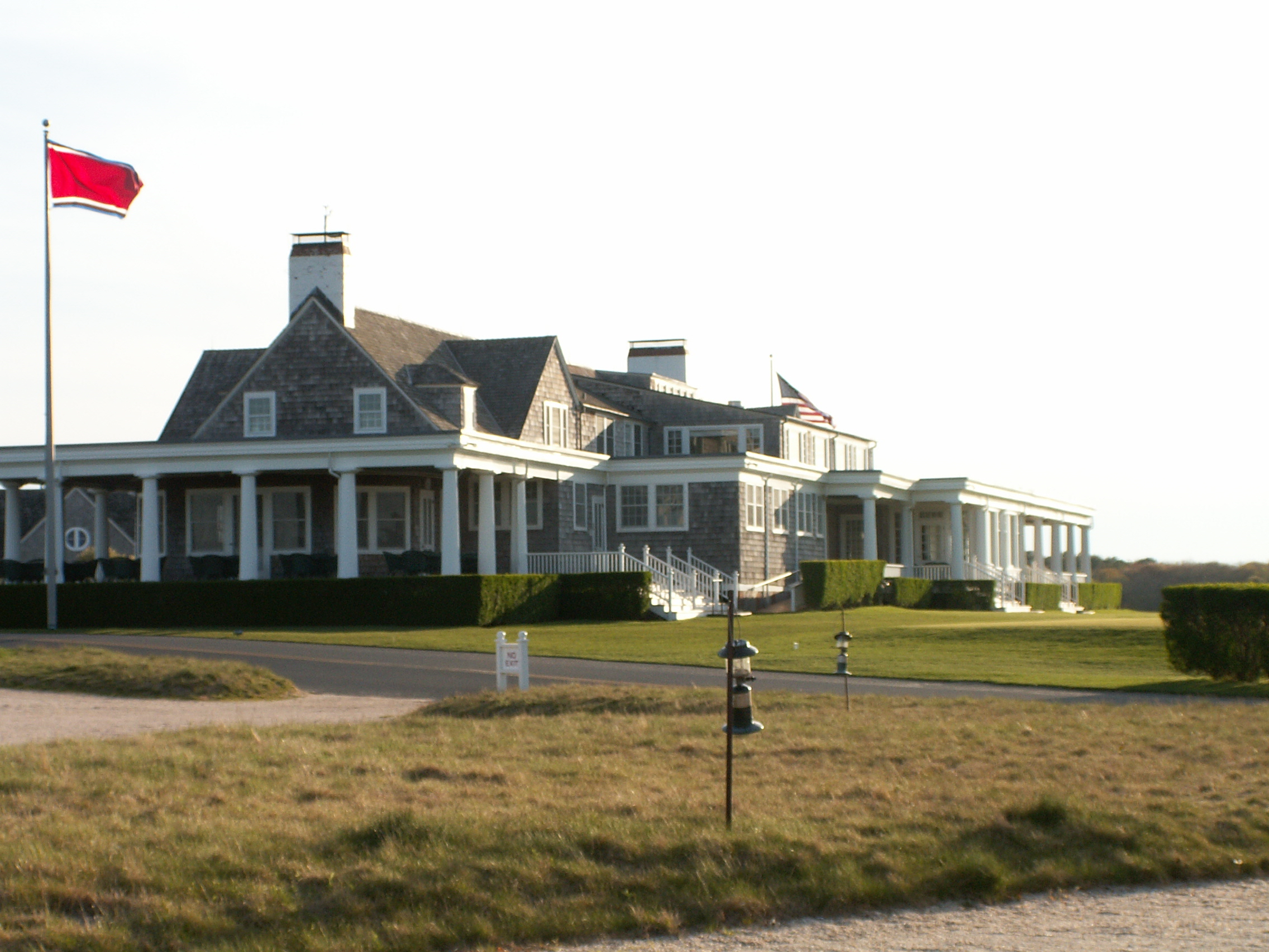 Shinnecock Hills Club House